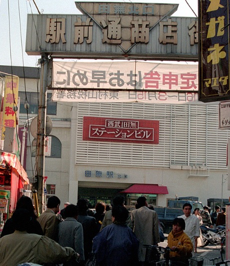 The north entrance of Tanashi Station on the Seibu Shinjuku Line